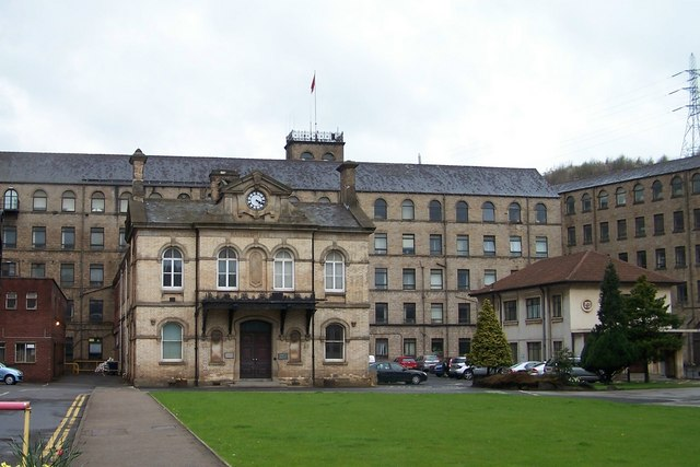 Samuel Fox Steel and Iron Works, Stocksbridge This picture shows most of the original buildings of Samuel Fox's Steel and Iron Works ... now incorporated into the present day Steelworks of Corus. Samuel Fox took over the existing mill in 1842 to start up his Wire Drawing business, using the end product for Umbrella and Crinoline Frames. I have been inside the small building (in a former job) and can say that it is just as good on the inside as the outside. 1032069 1032411